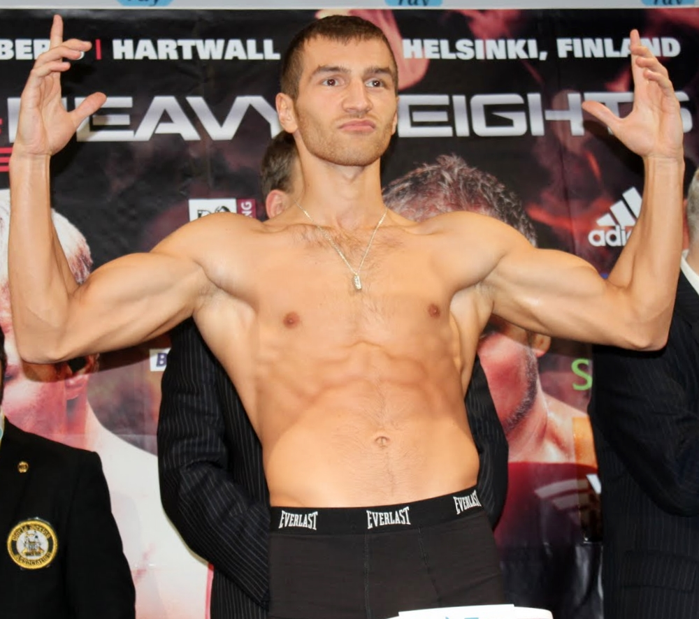 Edis Tatli at the Official Weigh-In in Helsinki on December 2, 2011.